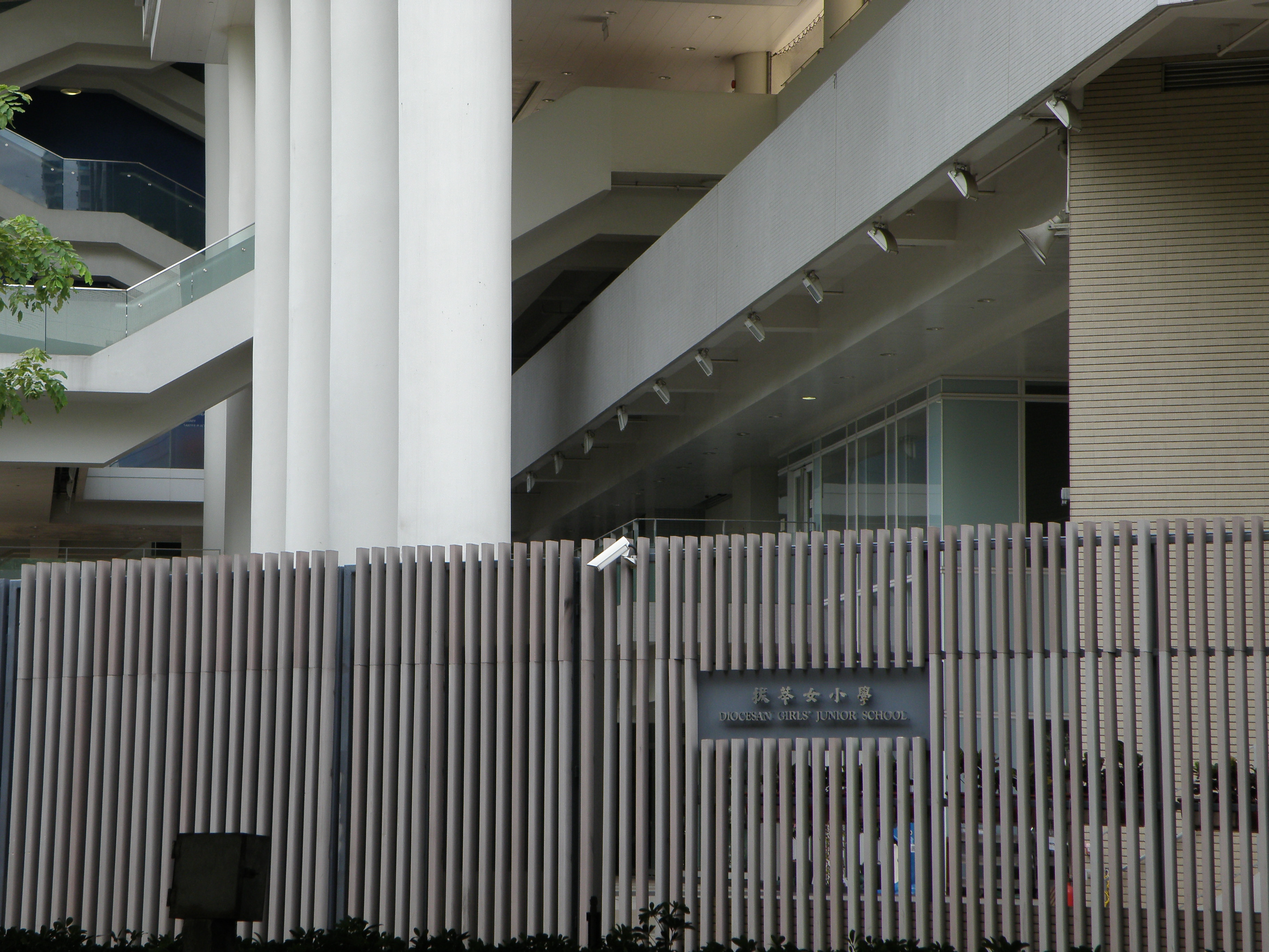 Diocesan Girls' Junior School in Jordan, Hong Kong.